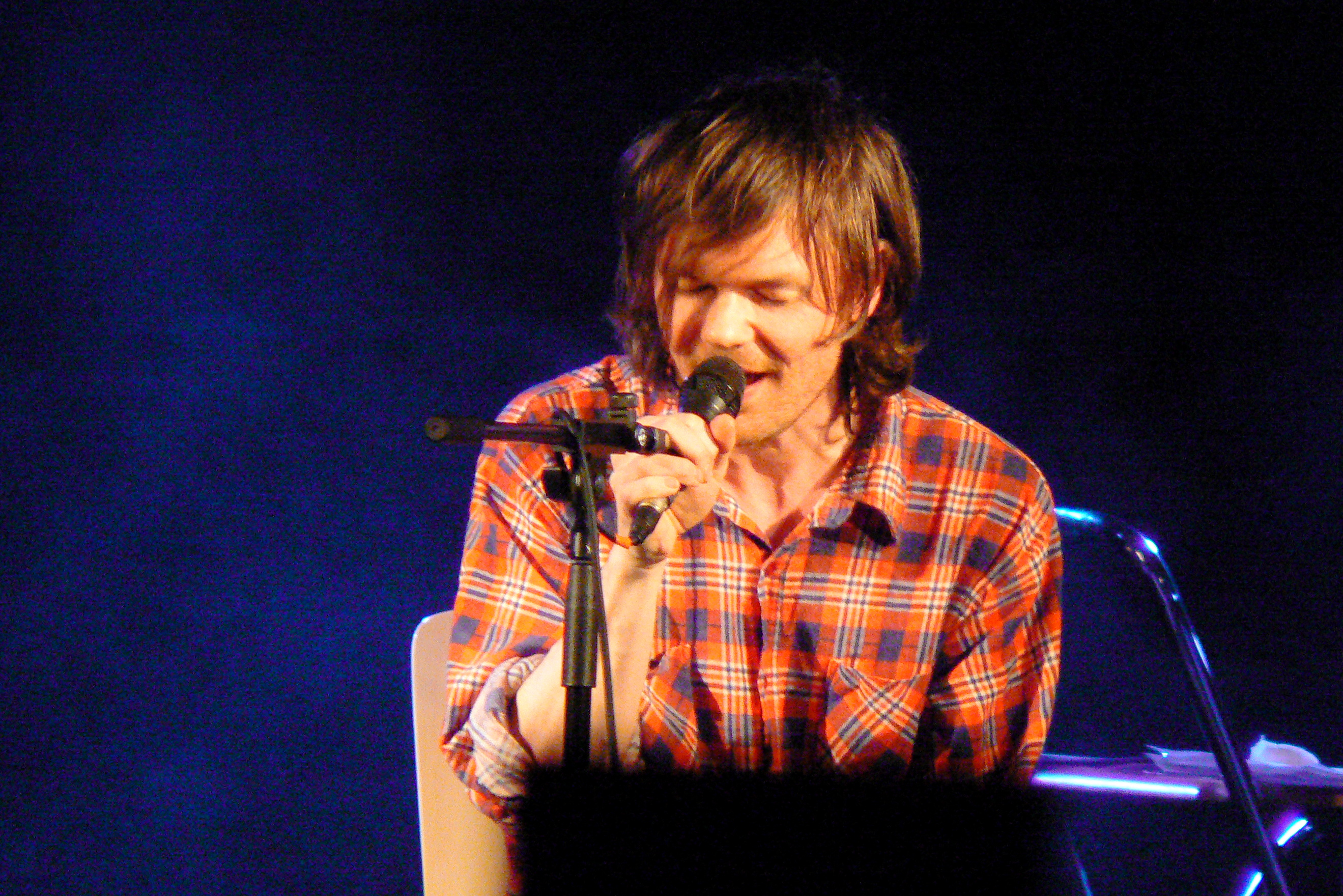 Idlewild frontman Roddy Woomble singing live at the Lemon Tree, Aberdeen